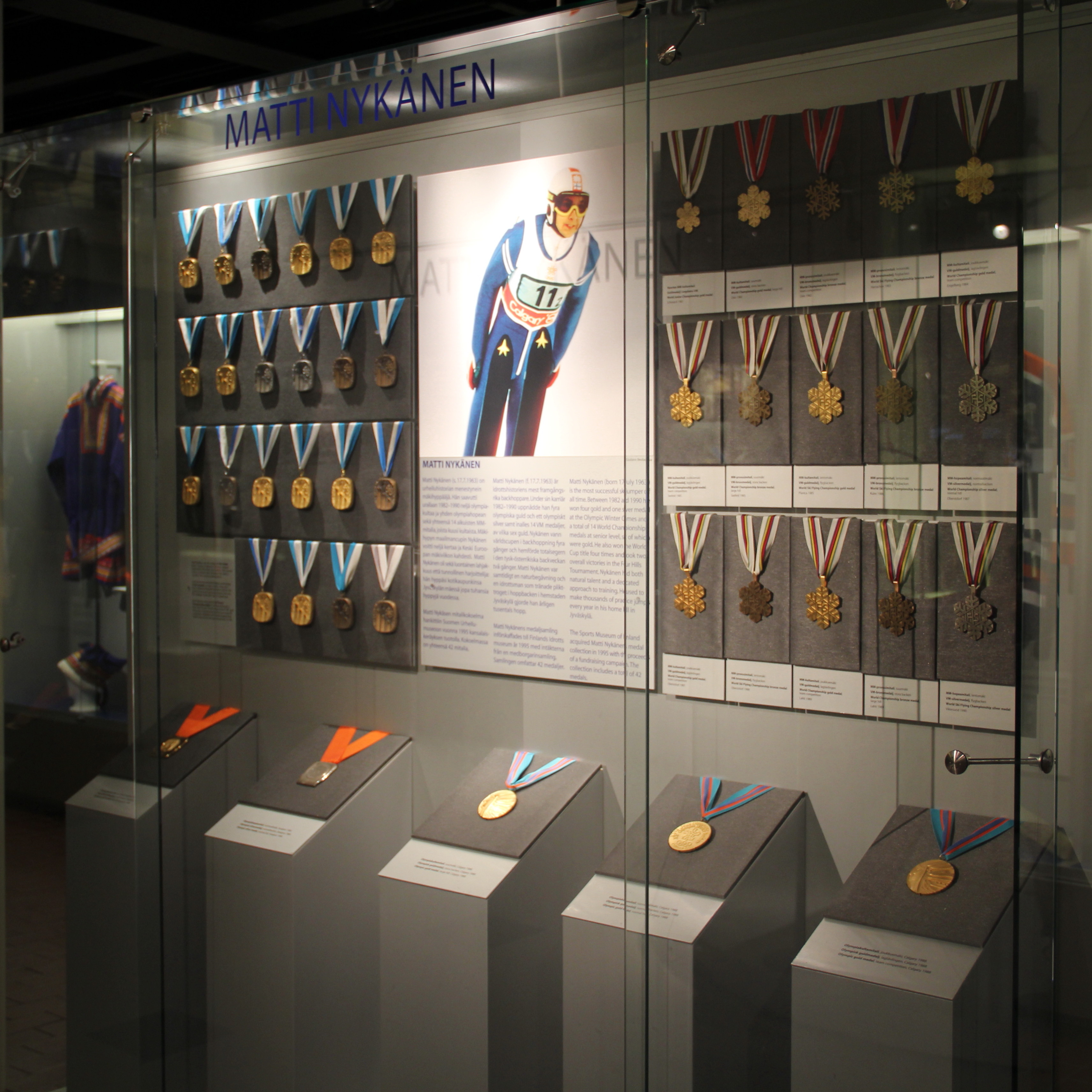 Sports Museum of Finland, Helsinki, Finland. The Matti Nykänen medal collection. Backgroud photo by Giuliano Bevilacqua.